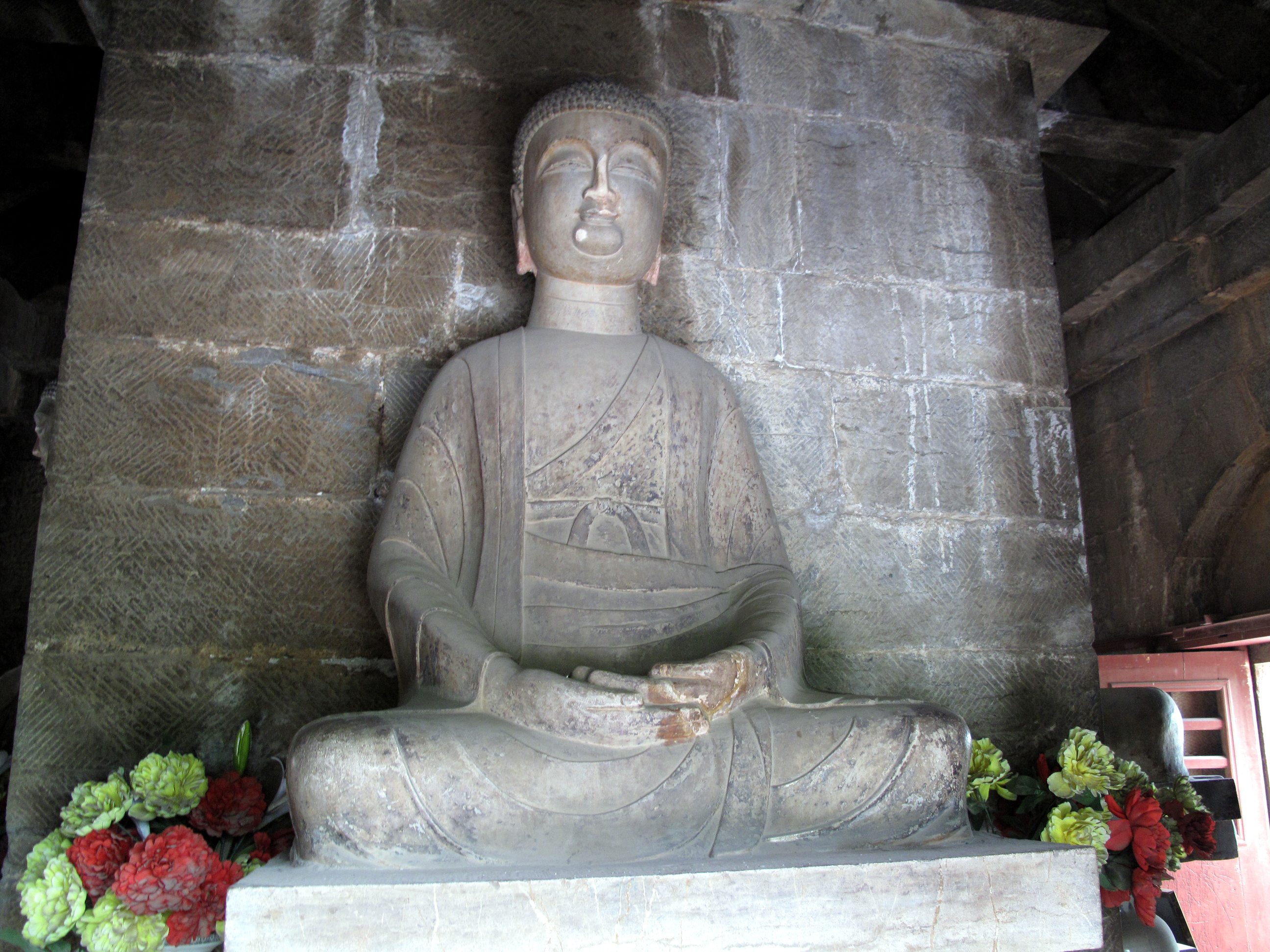 Statue of Amitabha. Eastern Wei, 544 AD. Simen Ta, Jinan The pagoda has a square central pillar, symbolizing the world-axis; around this, and facing outward through the doors to the four cardinal directions, are the directional buddhas: Amitabha (Amitayus, West), Amoghasiddhi (North), Akshobhya (East), and Ratnasambhava (South). Shown here is Amitabha, facing west.